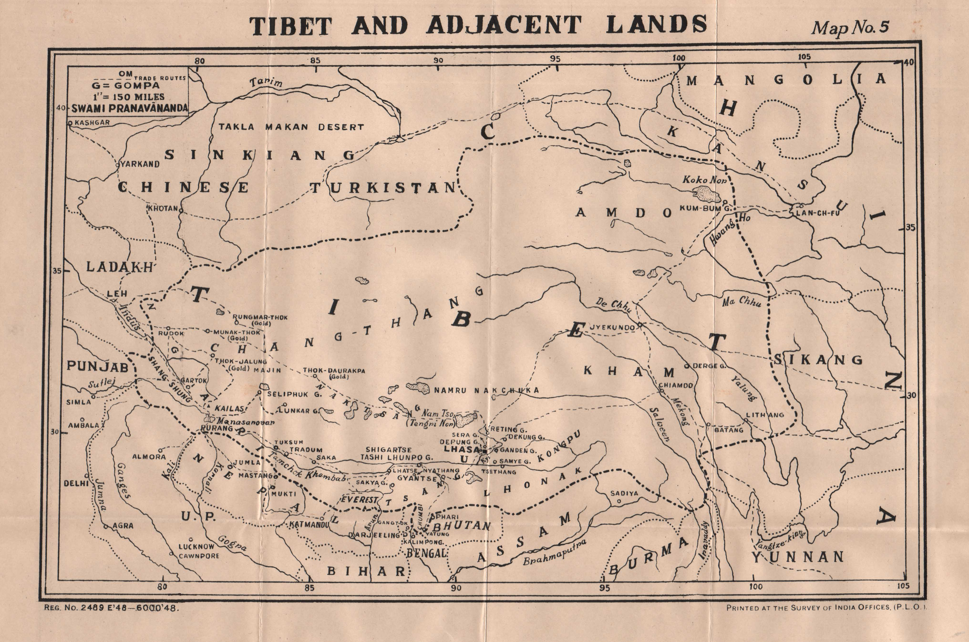 Map of Tibet and adjacent lands from History of Kailash Manasarovar with Maps by Swami Pranavananda. The map was printed at Survey of India office.